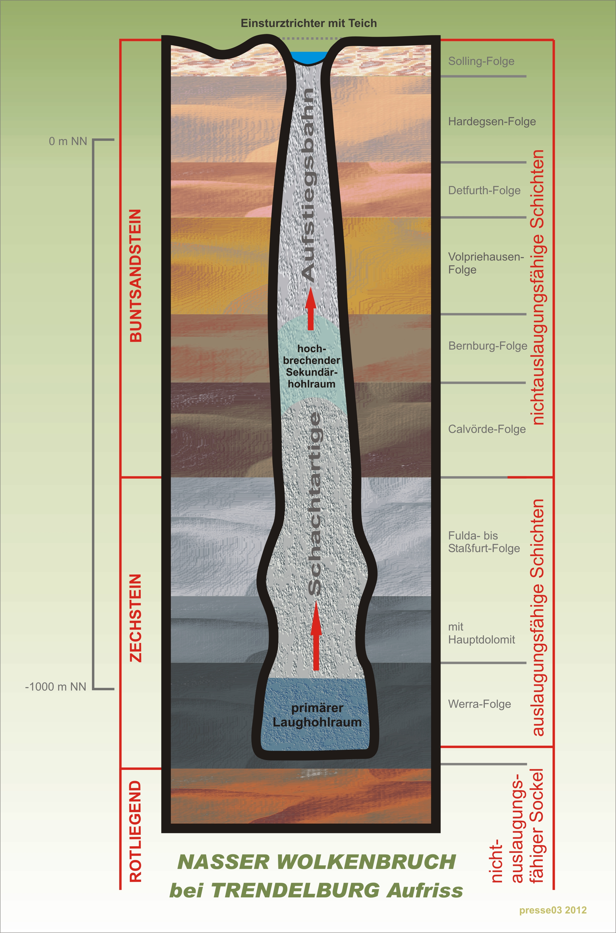 Germany / North Hesse:crater lake "Nasser Wolkenbruch" near Trendelburg - geological development